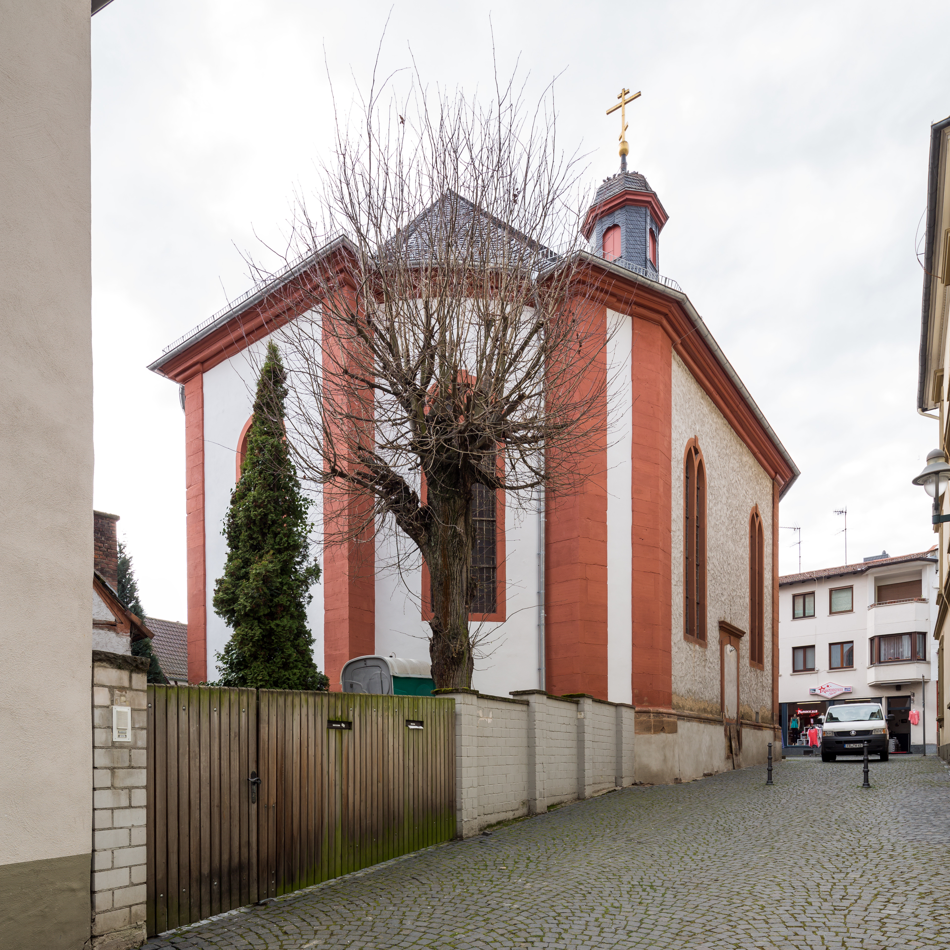 Bad Nauheim: Reinhardskirche (Reinhard Church) as seen from the northeast